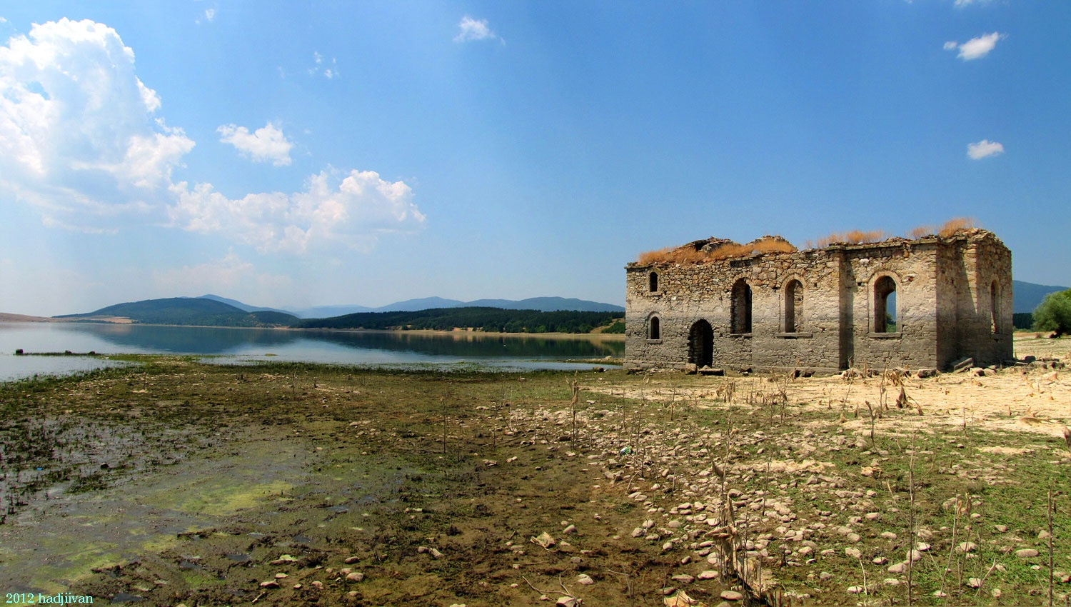 submerged church "Sveti Ivan Rilski" of the former village of Zapalnya at lake Zhrebchevo